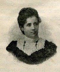 Danica Badnić, serbian teacher